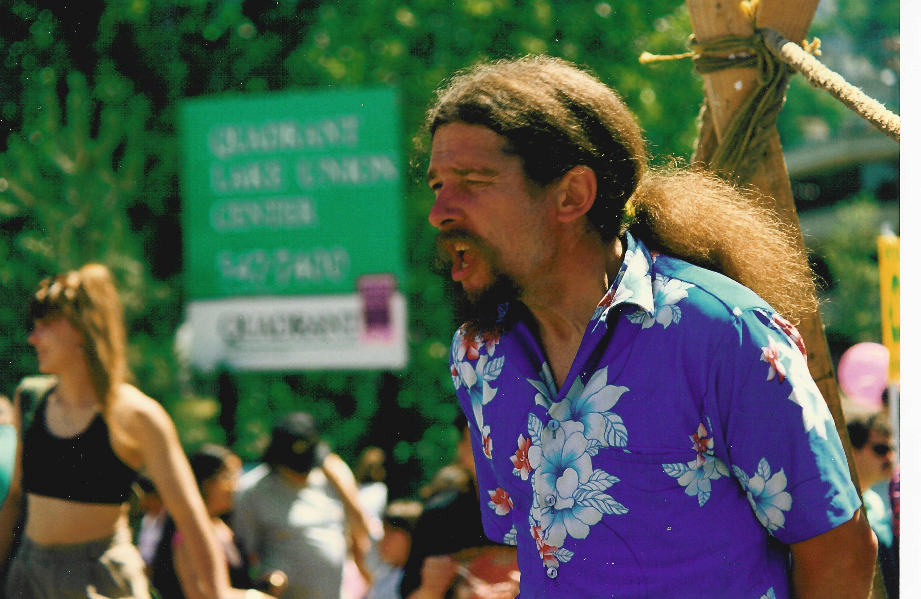 Michael Mielnik ("Reverend Chumleigh", a key figure since the 1970s in the contemporary revival of vaudeville), Fremont Fair, Seattle, Washington, 1993.